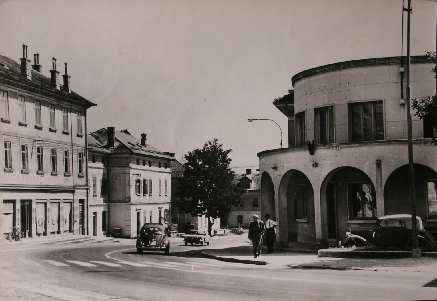 Postcard of Pivka.